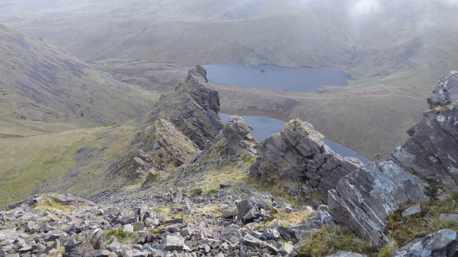 Looking back down to the Hag's Tooth, and into the Hag's Glen, from the Hag's Tooth Ridge